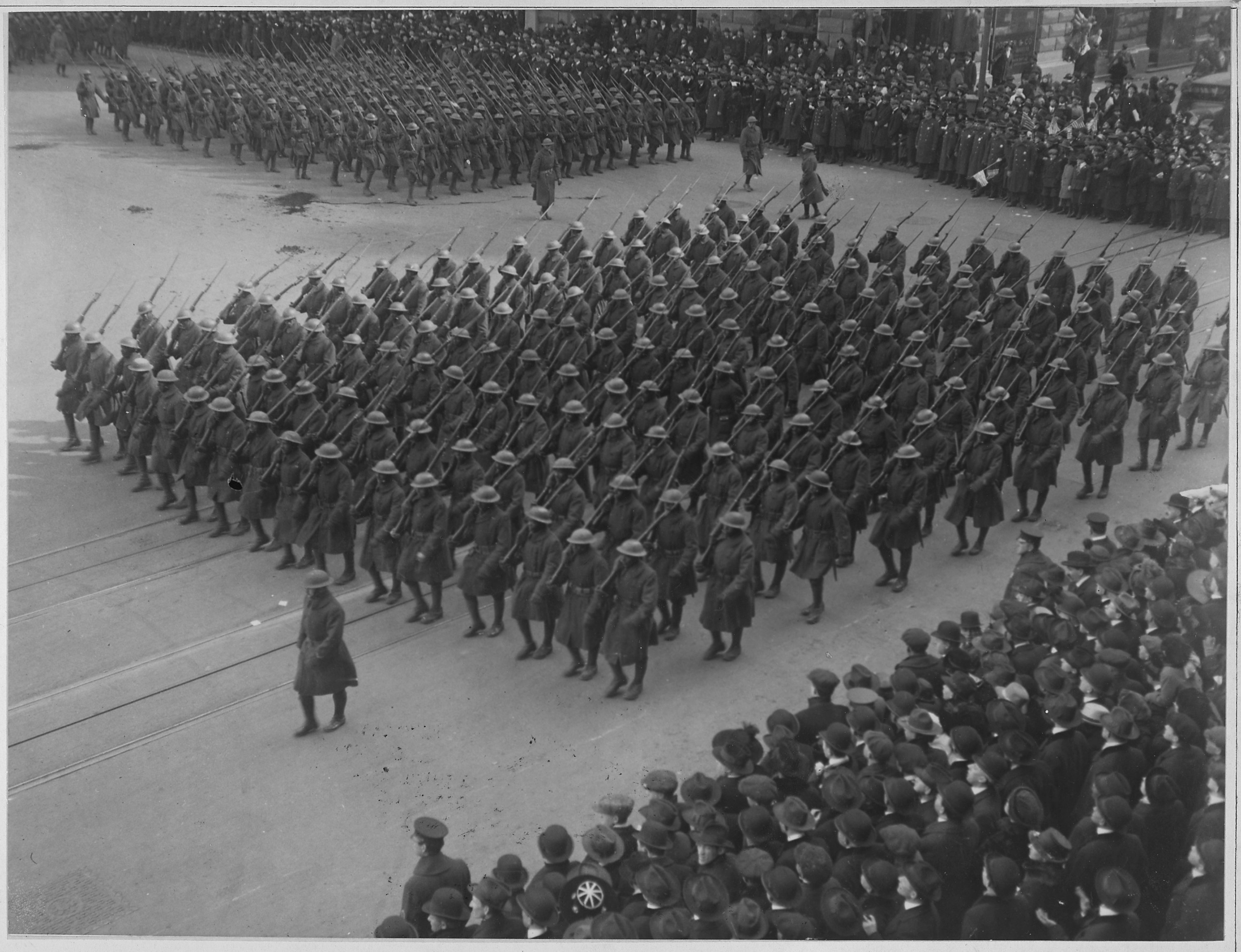 Scope and content: The full caption for this item is as follows: Colonel Hayward's "Hell Fighters" in parade. The famous 369th Infantry of [African American] fighters marching in New York City in honor of their return to this country.